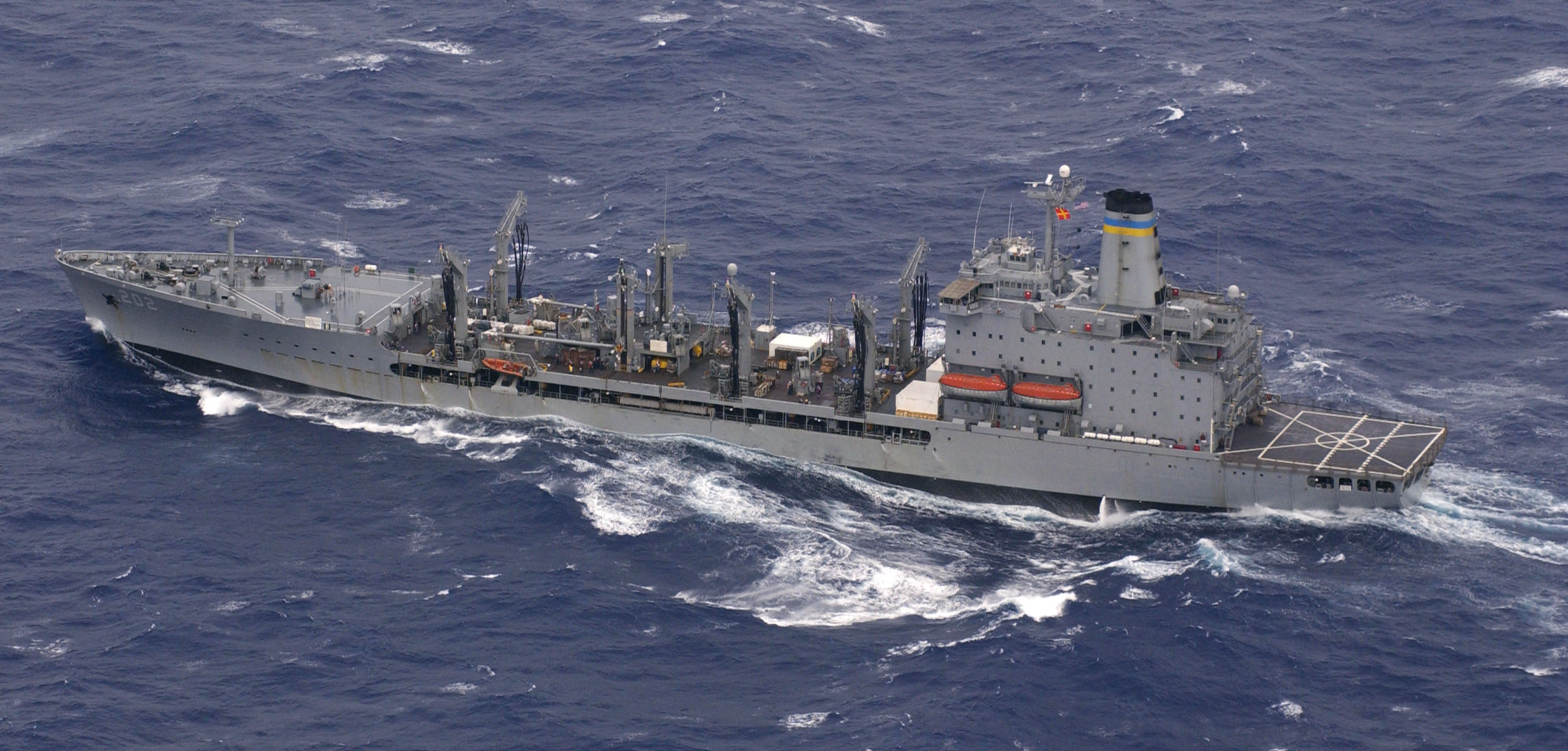 Pacific Ocean (Aug. 23, 2004) - The Military Sealift Command (MSC) oiler USNS Yukon (T-A0 202) prepares for a replenishment-at-sea (RAS) with USS Kitty Hawk (CV 63) in a turbulent western Pacific Ocean. Kitty Hawk Carrier Strike Group cut short its port visit in Guam to skirt Super Typhoon Chaba (19W), which formed west of the island. Currently under way in the 7th Fleet area of responsibility (AOR), Kitty Hawk demonstrates power projection and sea control as the world's only permanently forward-deployed aircraft carrier, operating from Yokosuka, Japan. U.S. Navy photo by Photographer's Mate 2nd Class William H. Ramsey (RELEASED)